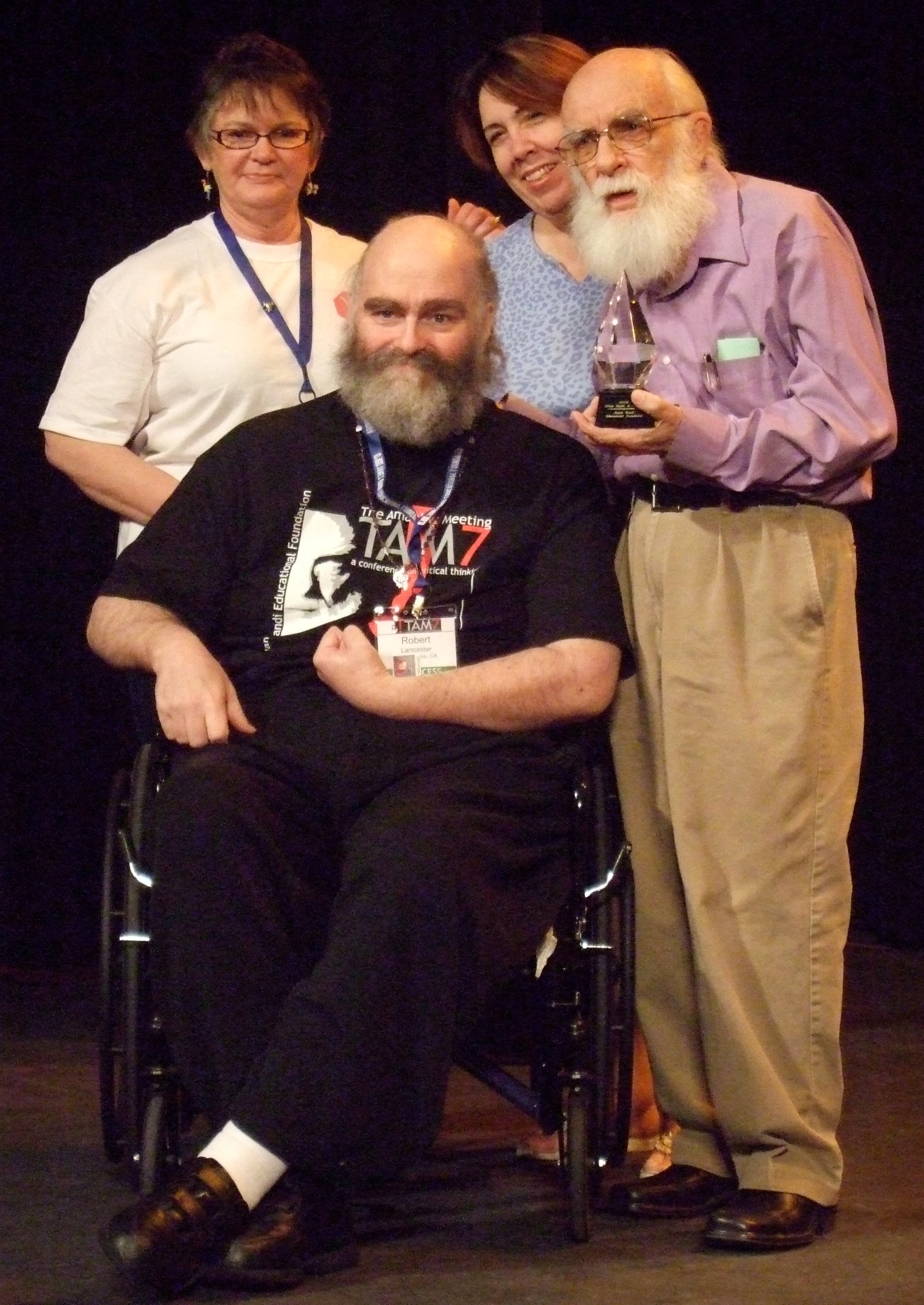 On July 11, 2009 at The Amazing Meeting 7 in Las Vegas, Nevada, the James Randi Educational Foundation awarded the first annual Citizen Skeptic Award to Robert S. Lancaster, the creator of the websites Stop Sylvia Browne ( and Stop Kaz (